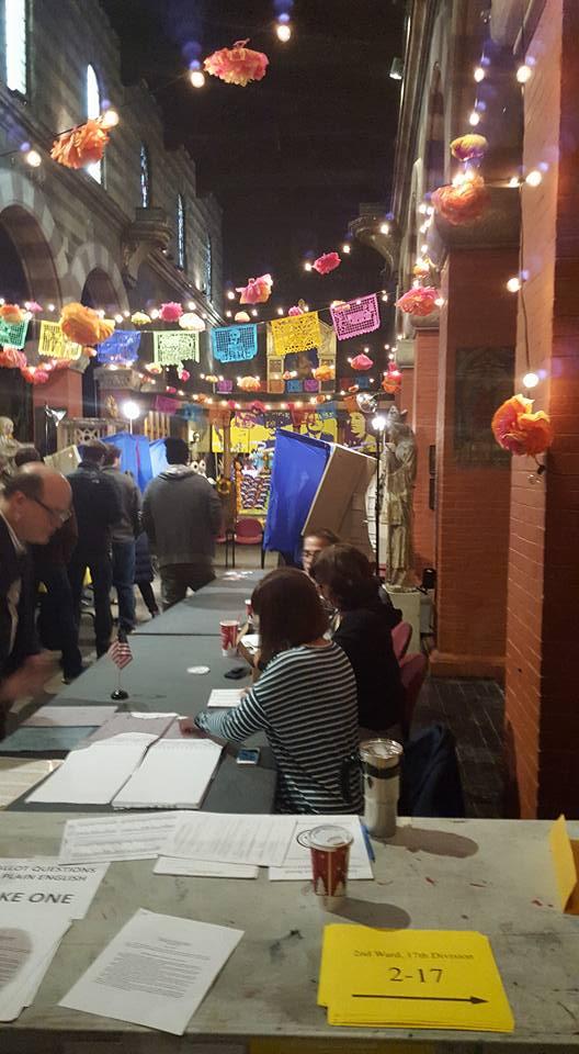 The Samuel S. Fleisher Art Memorial's sanctuary of the former Church of the Evangelists functions as a multi-purpose community space to the local neighborhood. In this photograph from November 8, 2018, the former sanctuary is decorated for the annual Día de los Muertos Altar Celebration and serving as the local wards' polling station. Photograph by Moriah Levin